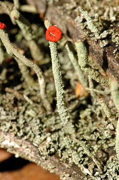 Picture taken in Commanster, Belgian High Ardennes . Species: Cladonia macilenta